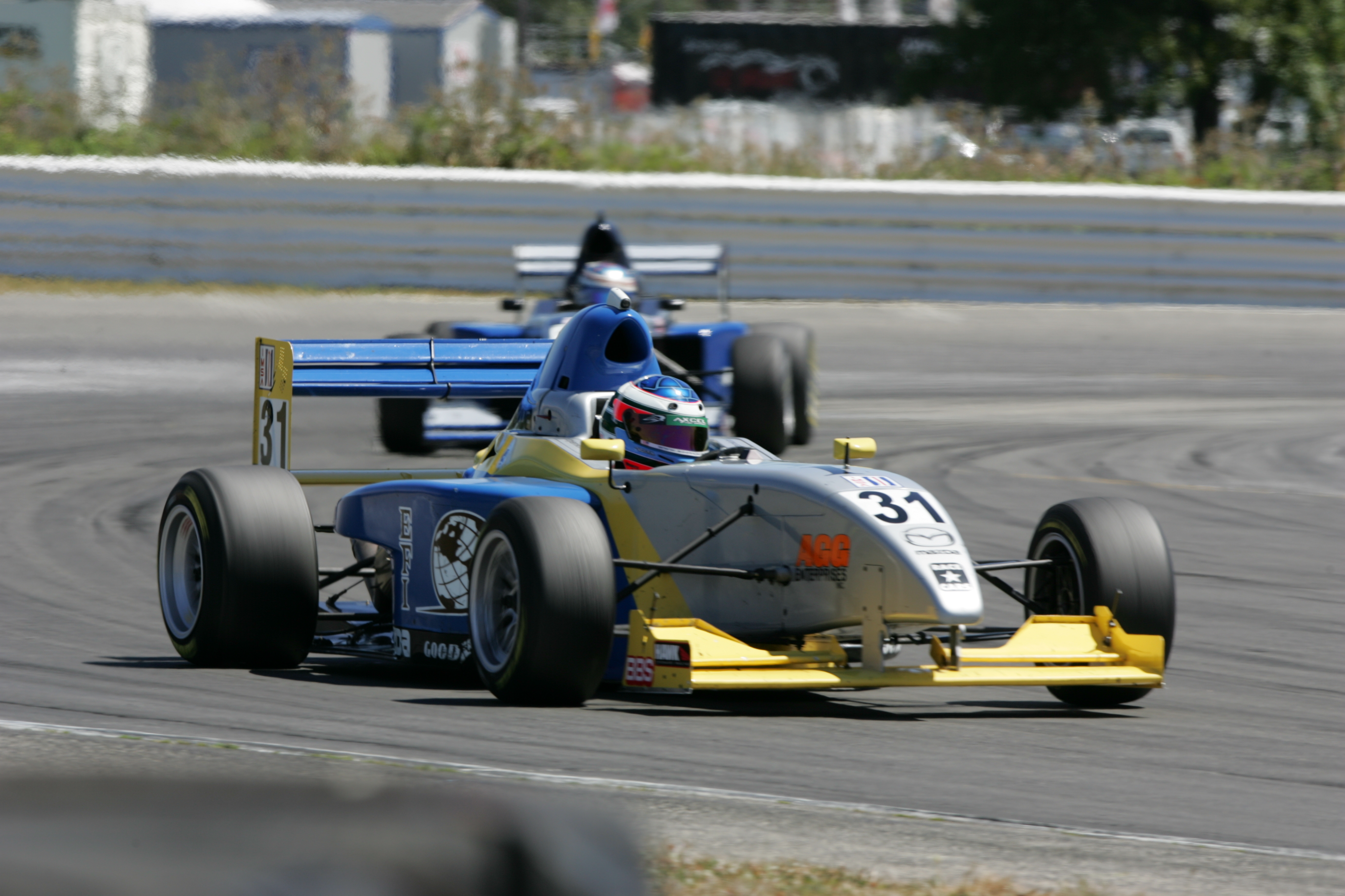 New carbon fiber car. Photo by Canonperson, 2005